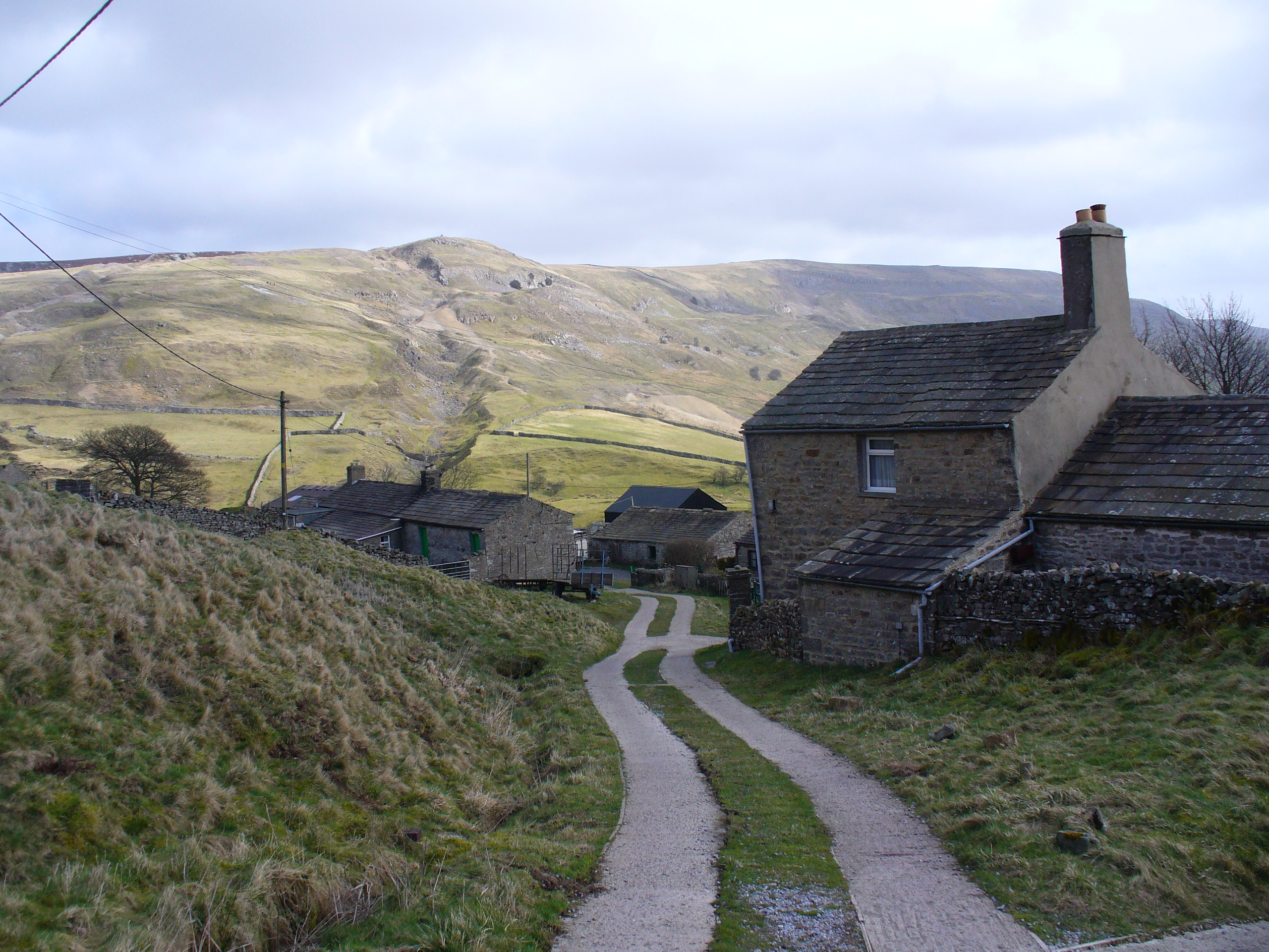 The village of Booze in Arkengarthdale, North Yorkshire, England. Slei Gill is visible in the background.